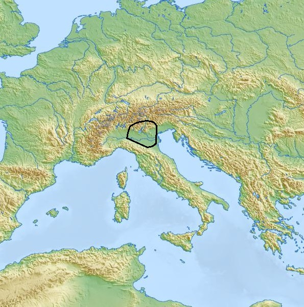 Map of the Remedello culture, based on a map printed at page 482 in Encyclopedia of Indo-European Culture, which was edited by J. P. Mallory and Douglas Q. Adams, and published by Taylor & Francis in 1997.